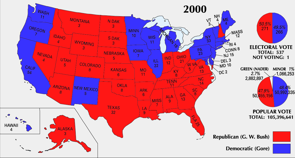 2000 Electoral College Map